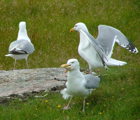 Photo taken by me in Norway